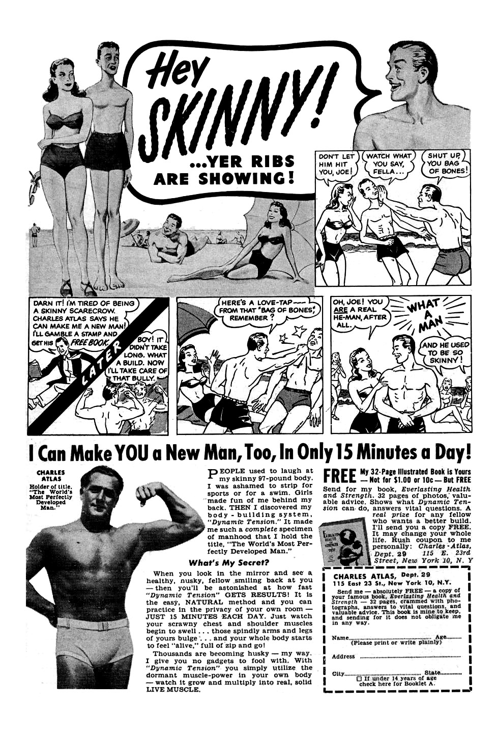 1953 variant of the well-known Charles Atlas body building ad. In this version, "Joe" is first taunted then physically abused by a muscular bully. Sexual stereotyping is prominent within the narrative; the weaker male is held up for public humiliation and ridicule. After violently defeating his rival, Joe finds himself literally surrounded by attractive young women. What a man!